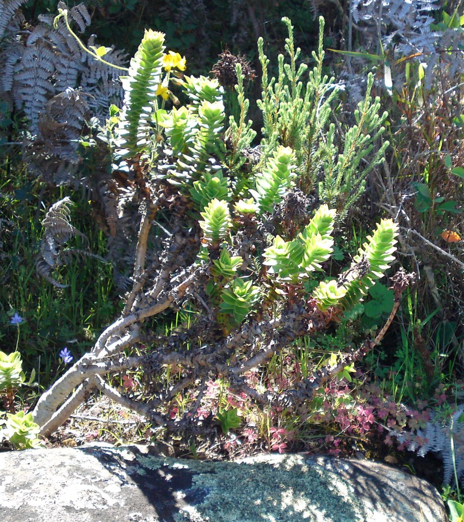 Crassula cocinea on contour path, Devil's Peak, Table Mountain.